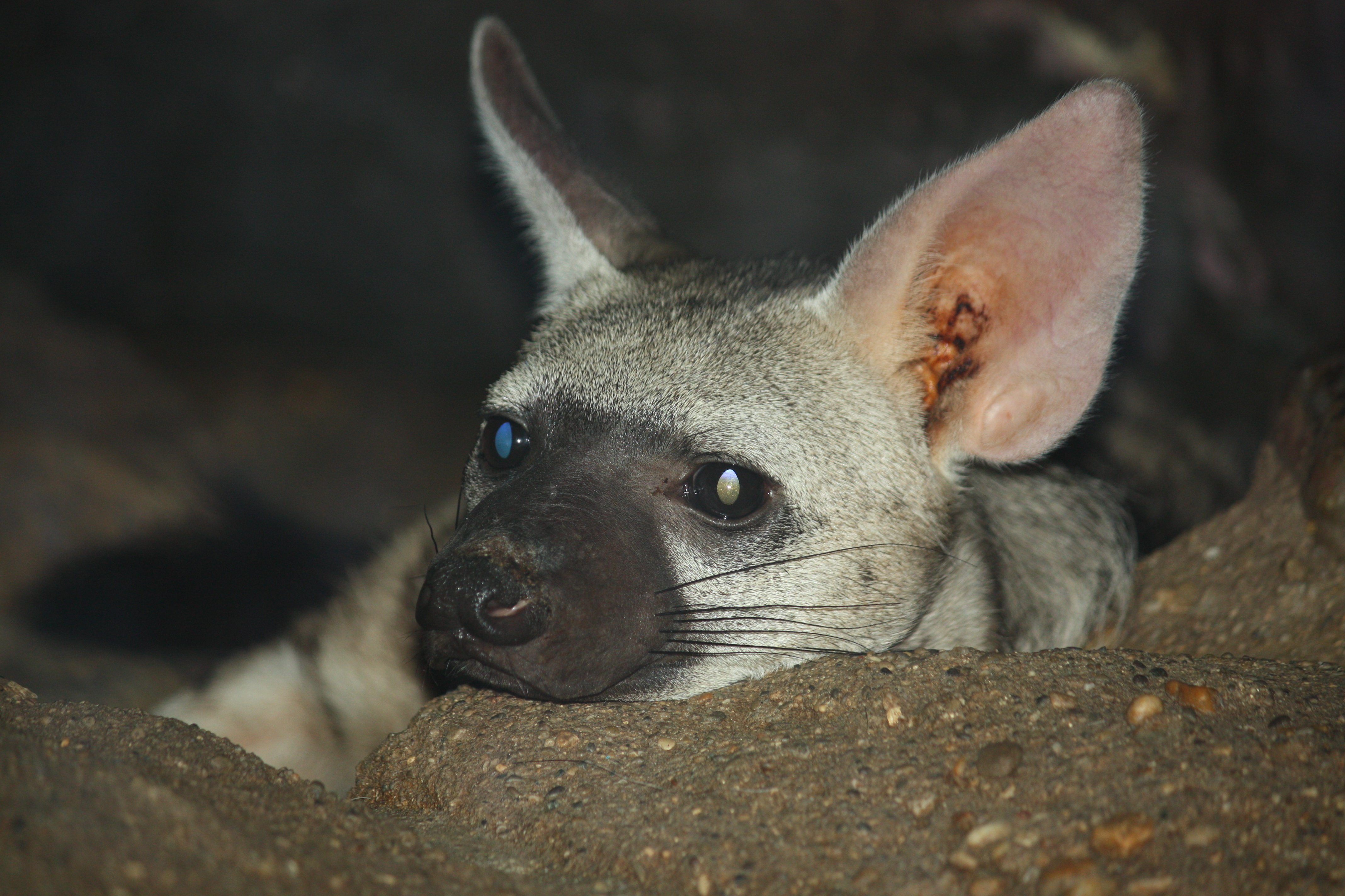 Aardwolf "Proteles Cristatus at Cincinnati Zoo